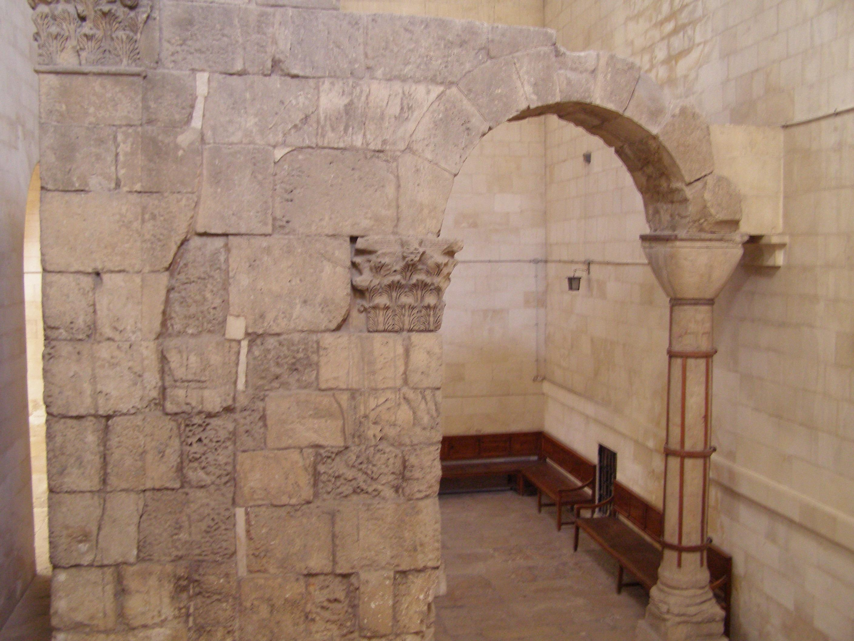 This gate is part of the St. Alexander Nevsky church in Old Jerusalem.